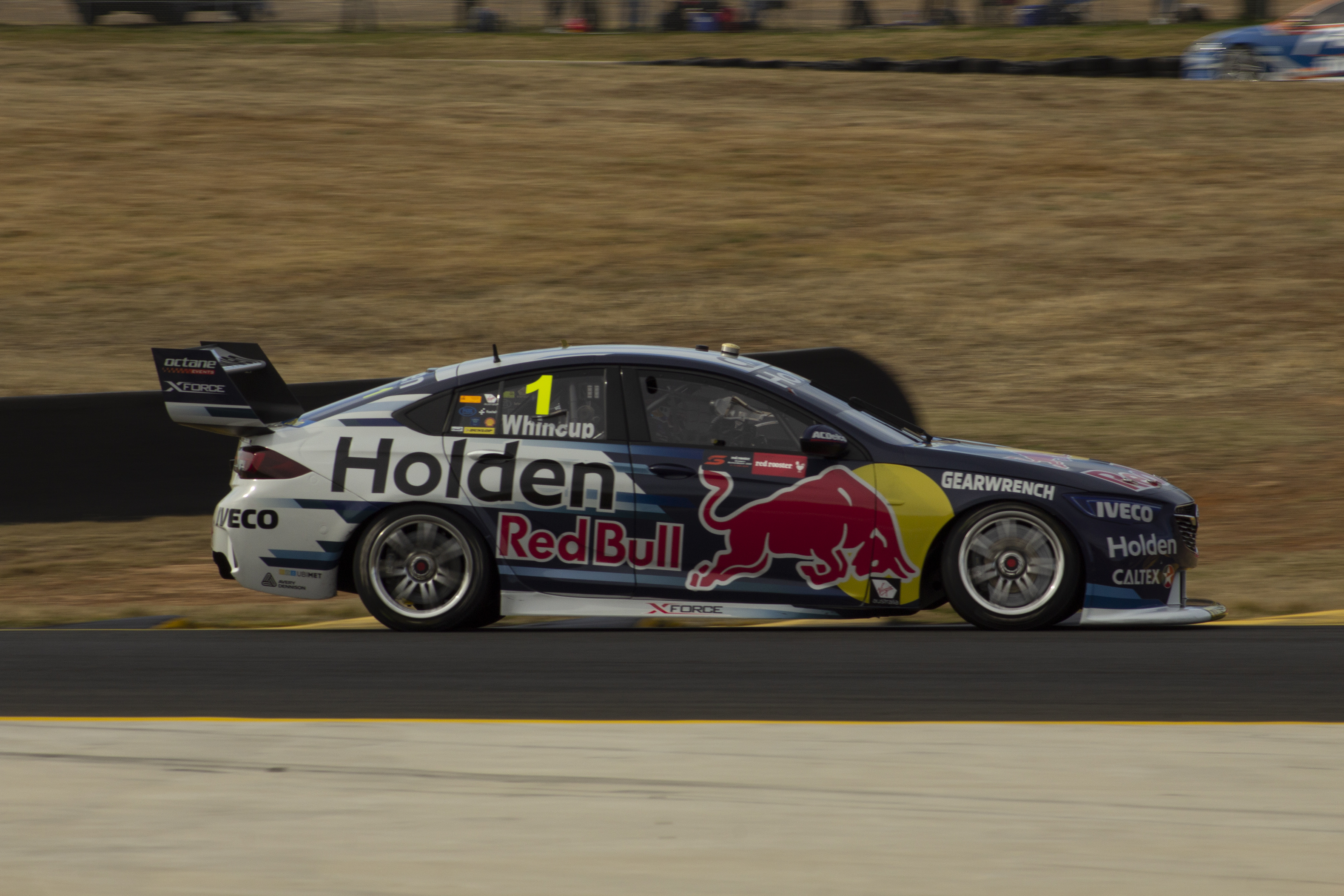 Holden ZB Commodore driven by Jamie Whincup